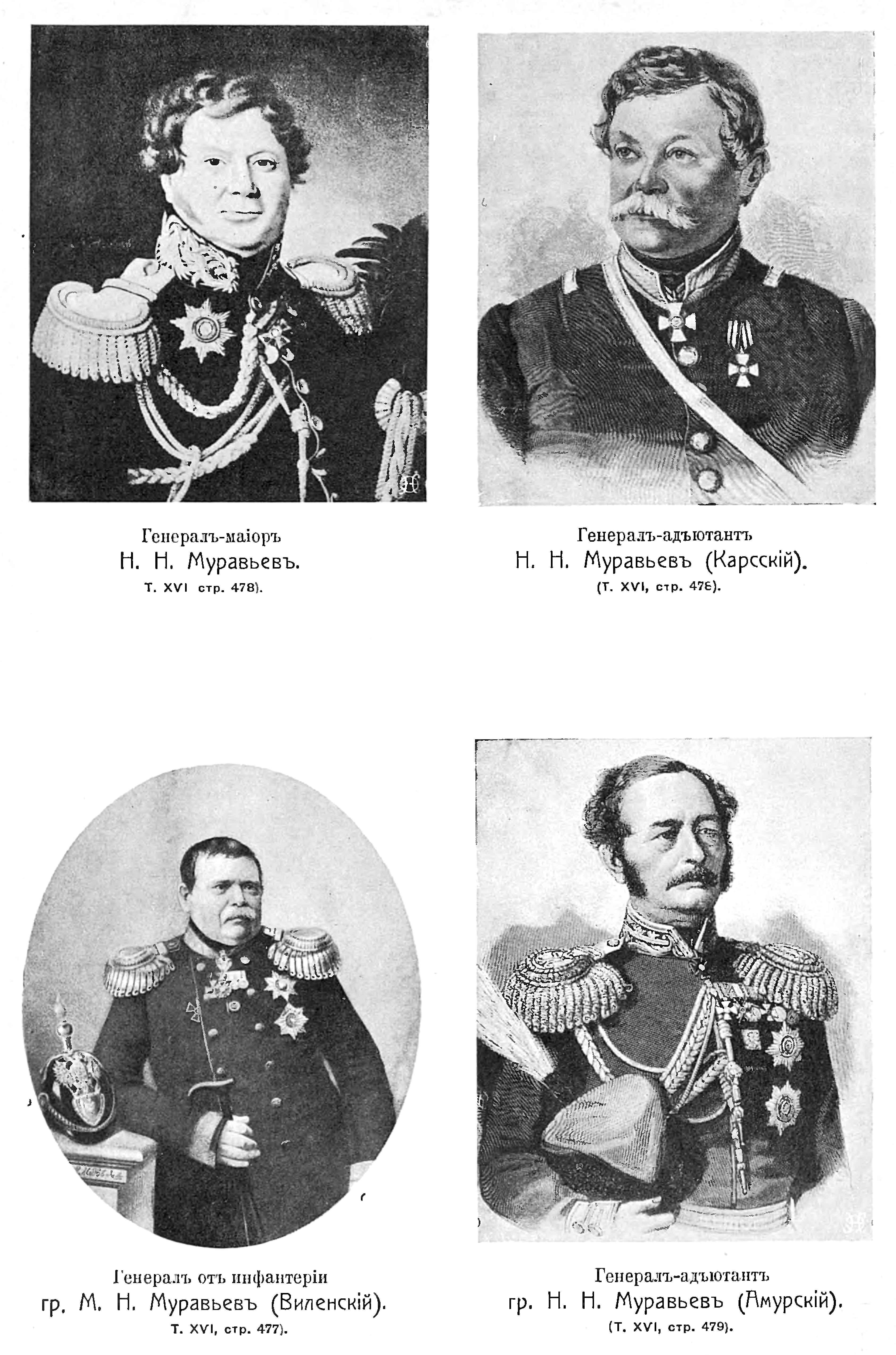 House of Muraviev. Military Encyclopedia. Vol. 16 (Saint-Petersburg; 1914).